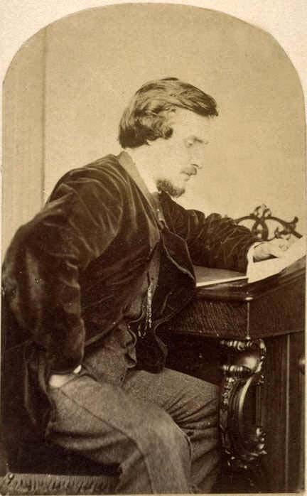 Thomas Rodger, early Scottish photograph of St Andrews